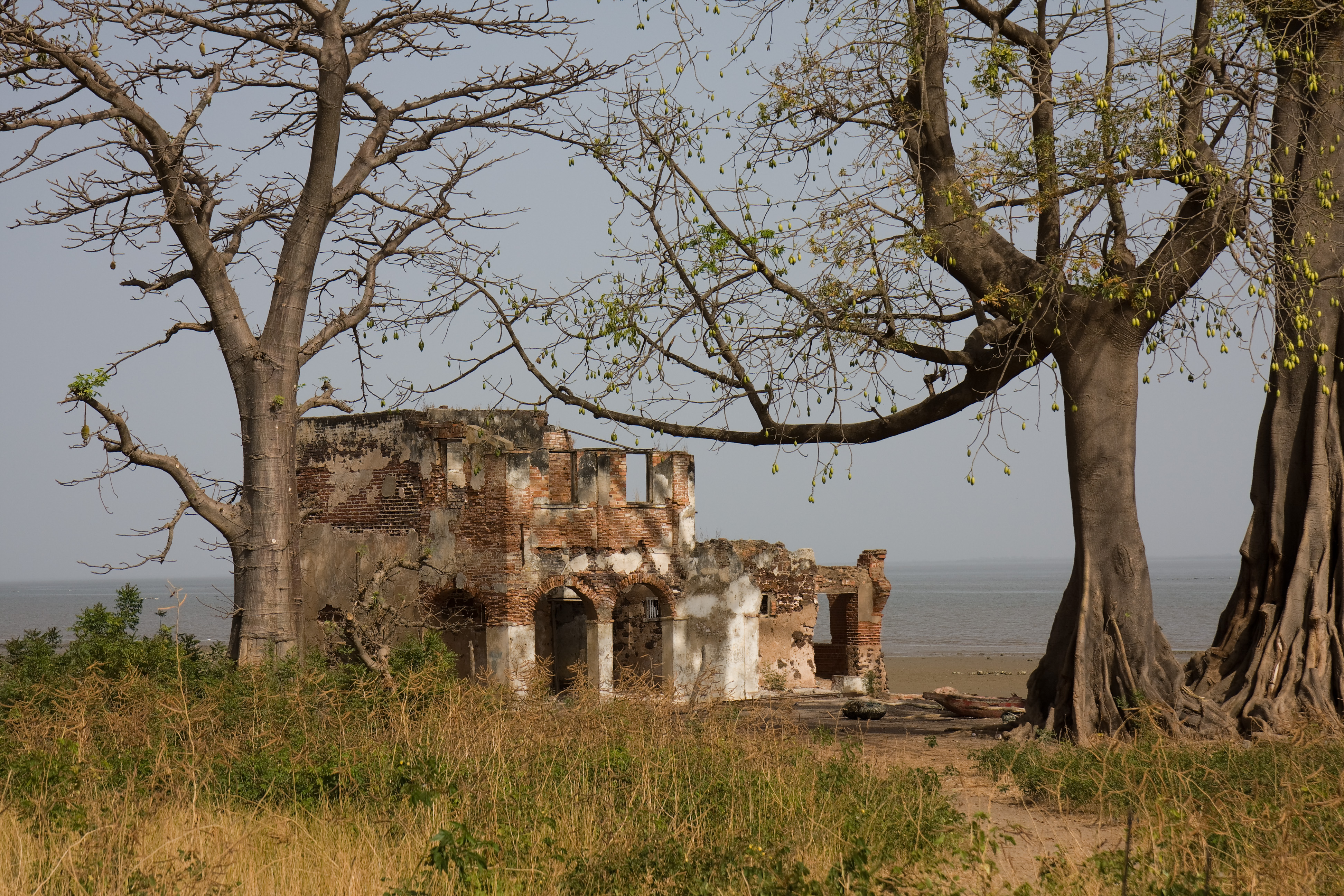 An abandoned trade house in Albreda/The Gambia